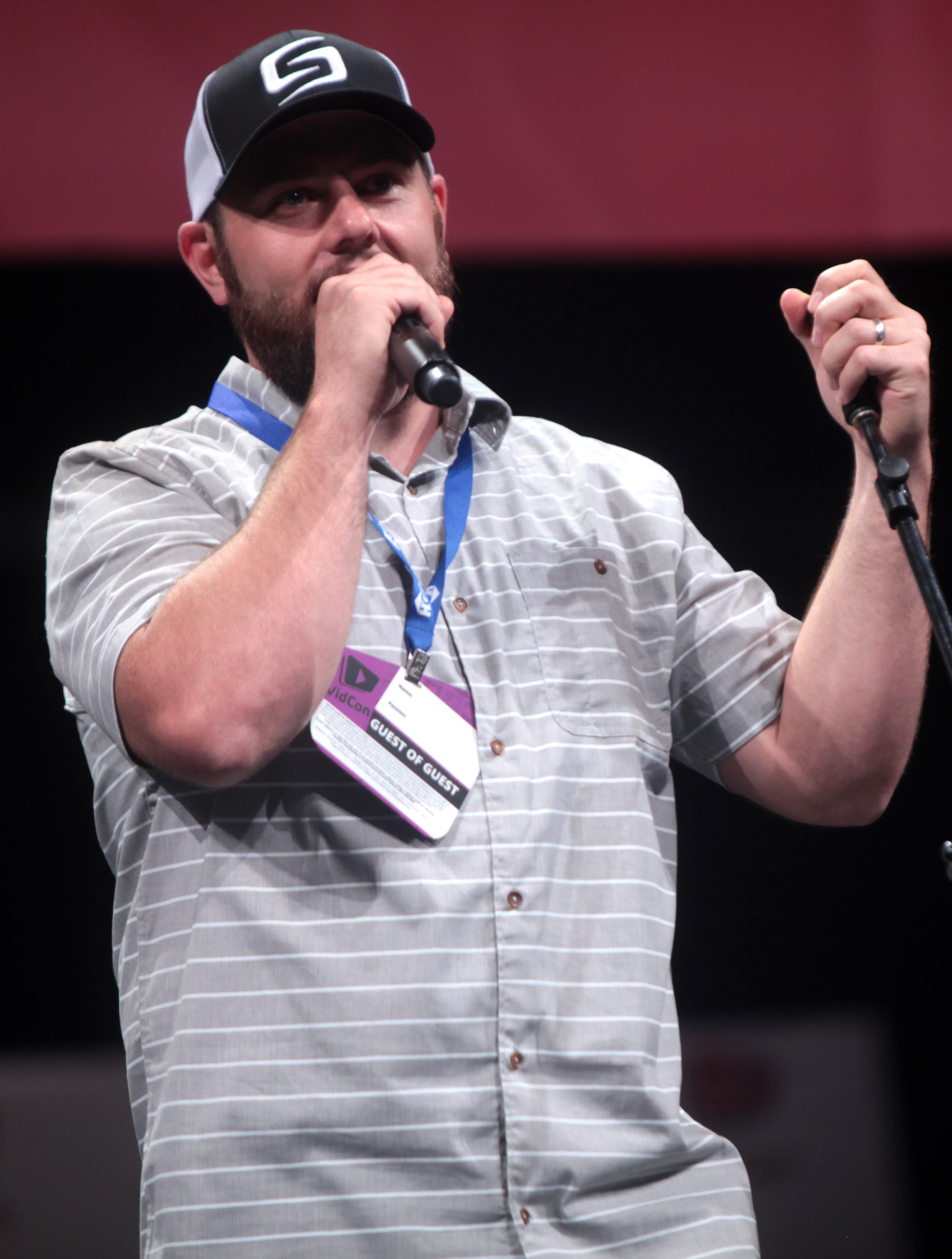 Shay Carl speaking at the 2014 VidCon on June 28, 2014.